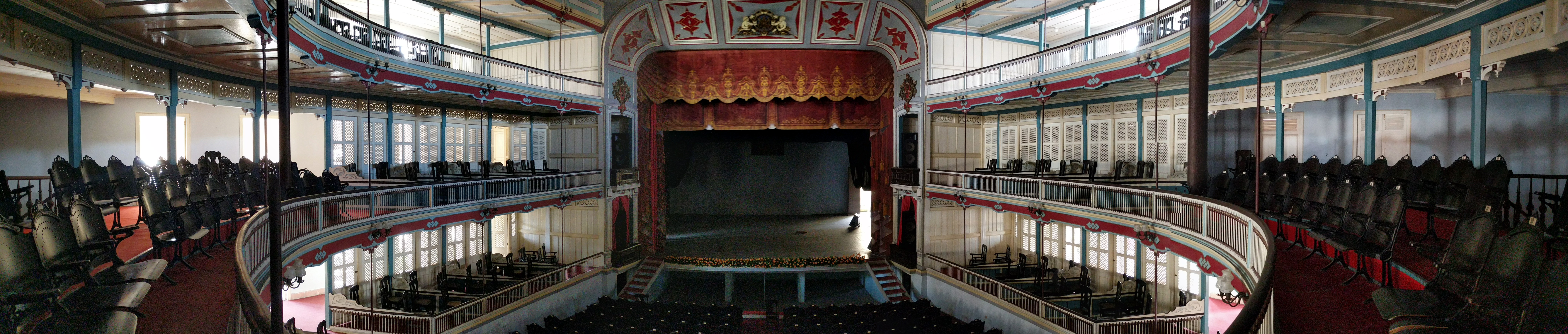 Panoramic picture of the interior of the theater from Center Stage.